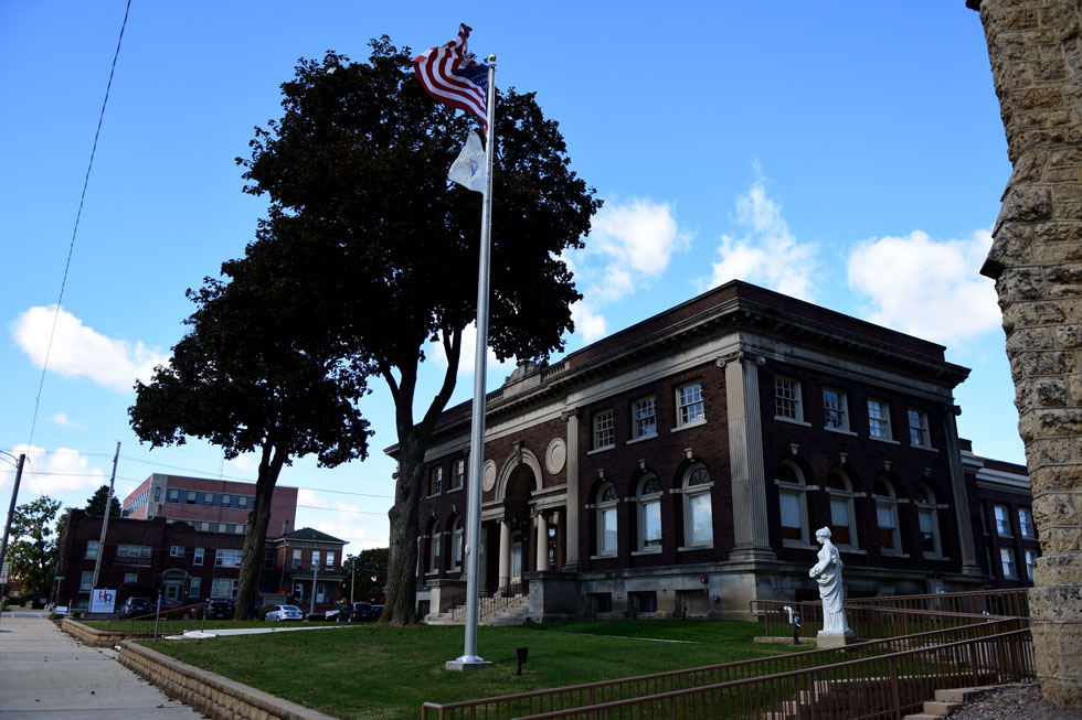 This is a picture of Freeport, Illinois City Hall. This photo is owned by the City of Freeport, Illinois.